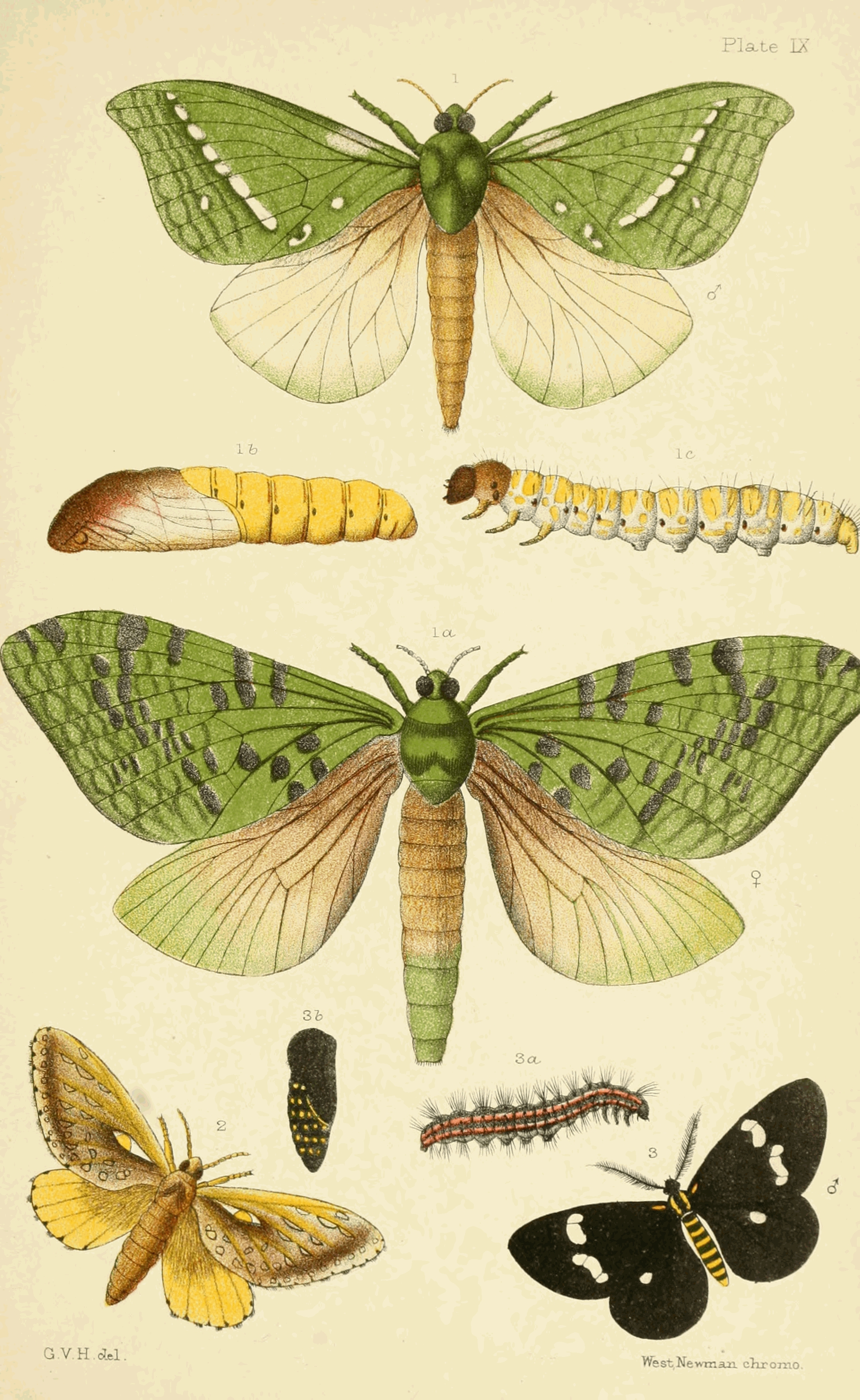 An elementary manual of New Zealand entomology; being an introduction to the study of our native insects. Plate IX. Fig.Name in textAccepted name (2017)1Hepialus virescens Doubleday, 1843 (Male)Aenetus virescens (Doubleday, 1843)1aHepialus virescens Doubleday, 1843 (Female)Aenetus virescens (Doubleday, 1843)1bHepialus virescens Doubleday, 1843 (Pupa)Aenetus virescens (Doubleday, 1843)1cHepialus virescens Doubleday, 1843 (Larva)Aenetus virescens (Doubleday, 1843)2Porina signata (Walker, 1856)Wiseana signata (Walker, 1856)3Nyctemera annulata Boisduval, 1832 (Male)Nyctemera annulata Boisduval, 18323aNyctemera annulata Boisduval, 1832 (Larva)Nyctemera annulata Boisduval, 18323bNyctemera annulata Boisduval, 1832 (pupa)Nyctemera annulata Boisduval, 1832